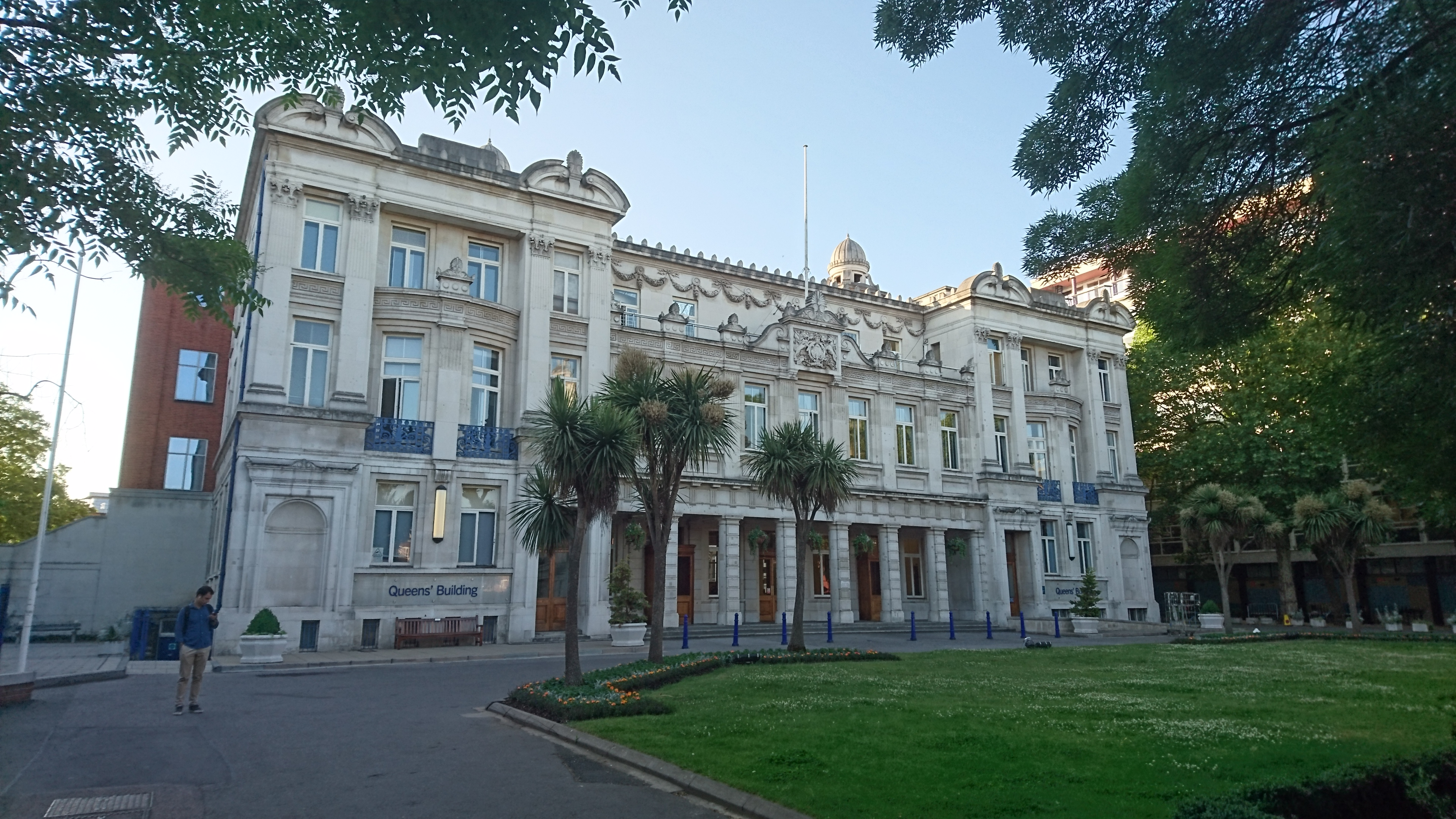 Queens' Building, Queen Mary University of London Wikidata has entry Q26318266 with data related to this item.